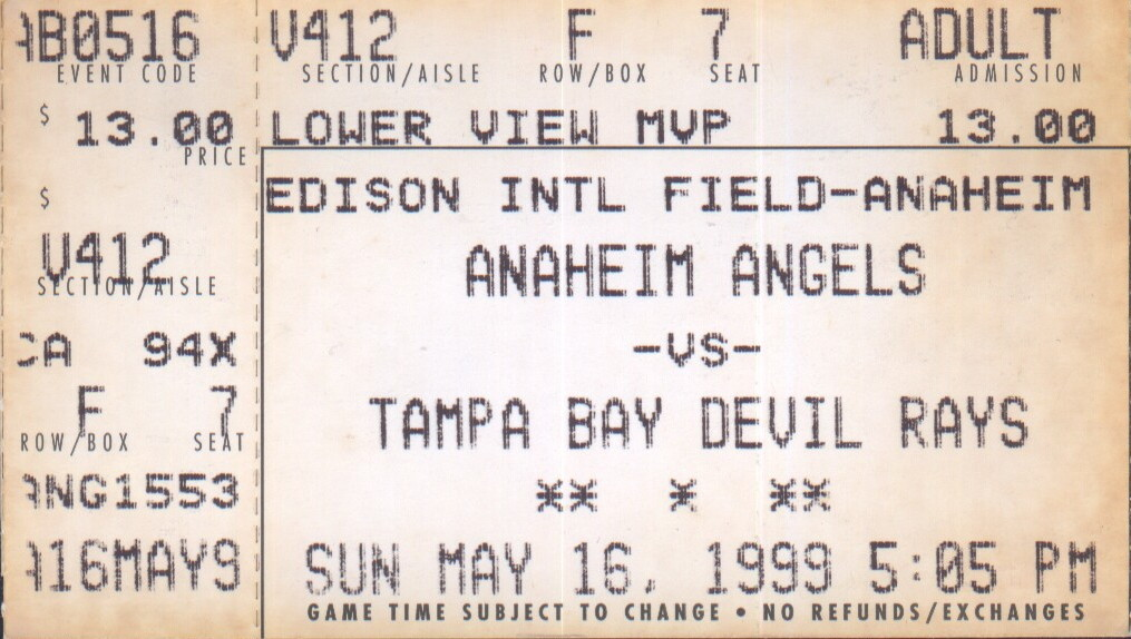 A ticket for a May 16, 1999 Major League Baseball game featuring the Tampa Bay Devil Rays versus the Anaheim Angels at Edison International Field of Anaheim.